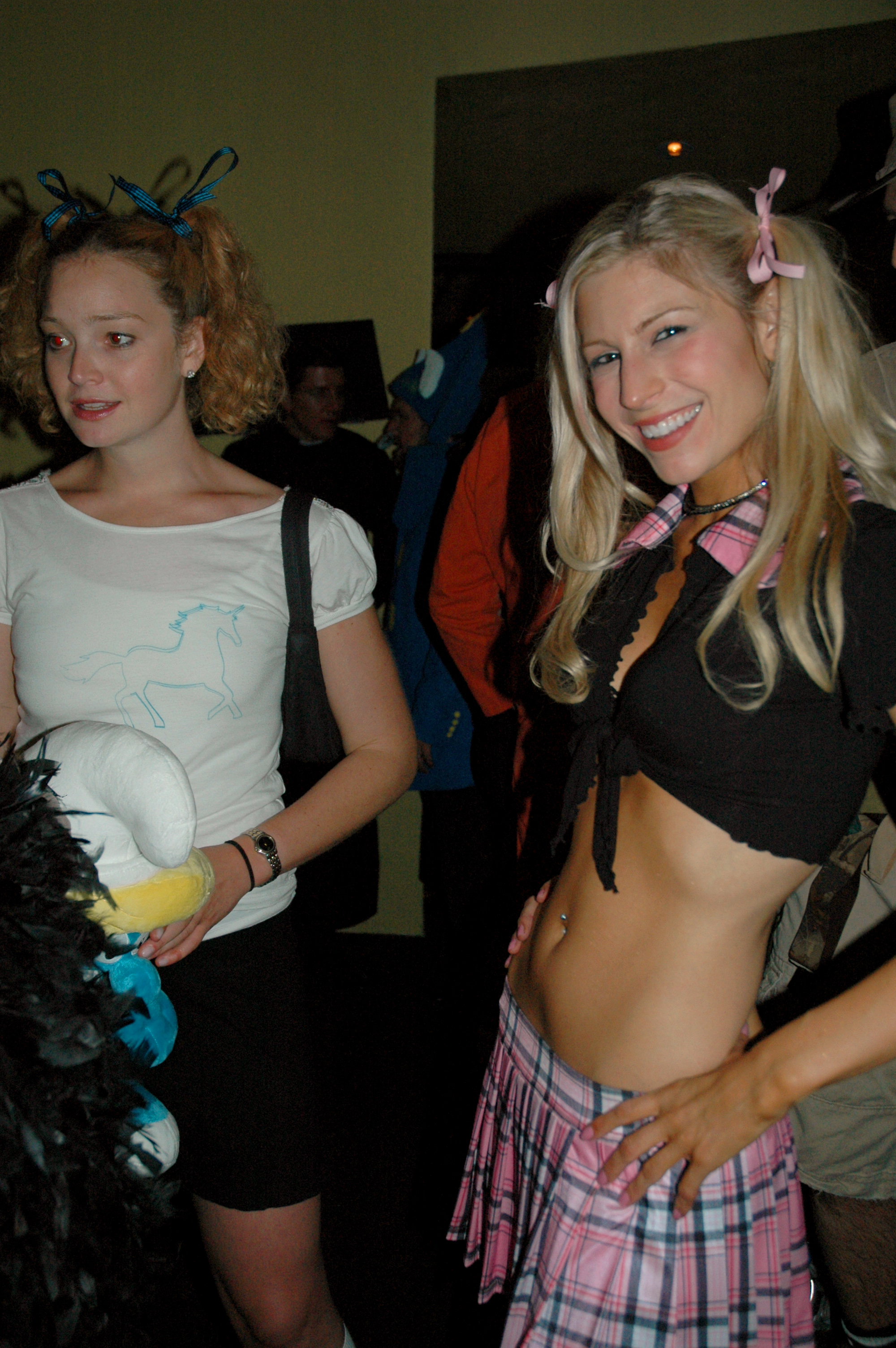 Young woman at the Art of Elysium Halloween Ball at Maple Drive in Beverly Hills.